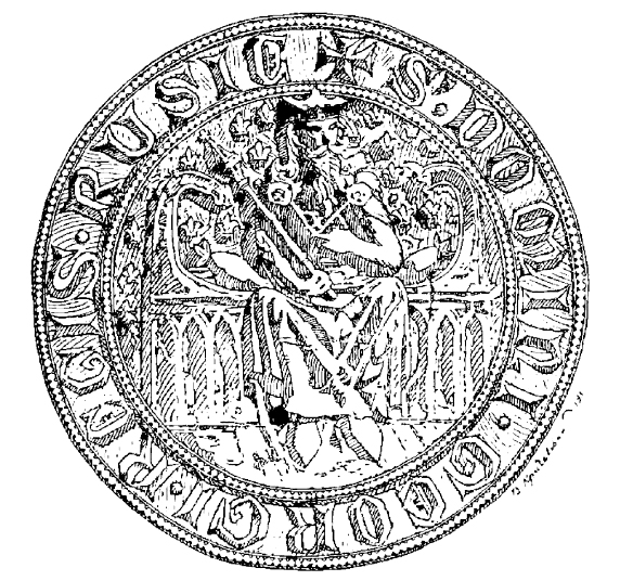 Seal of Yurii I king of Rus, prince of Ladimeria.